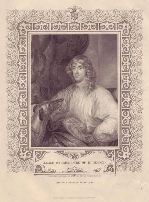 James Stuart, Duke of Richmond, c. 1850 stipple engraving by John Cochran after a portrait c. 1636 by Anthony Van Dyck in Kenwood House, London. Published by John Tallis & Company, London & New York c. 1850